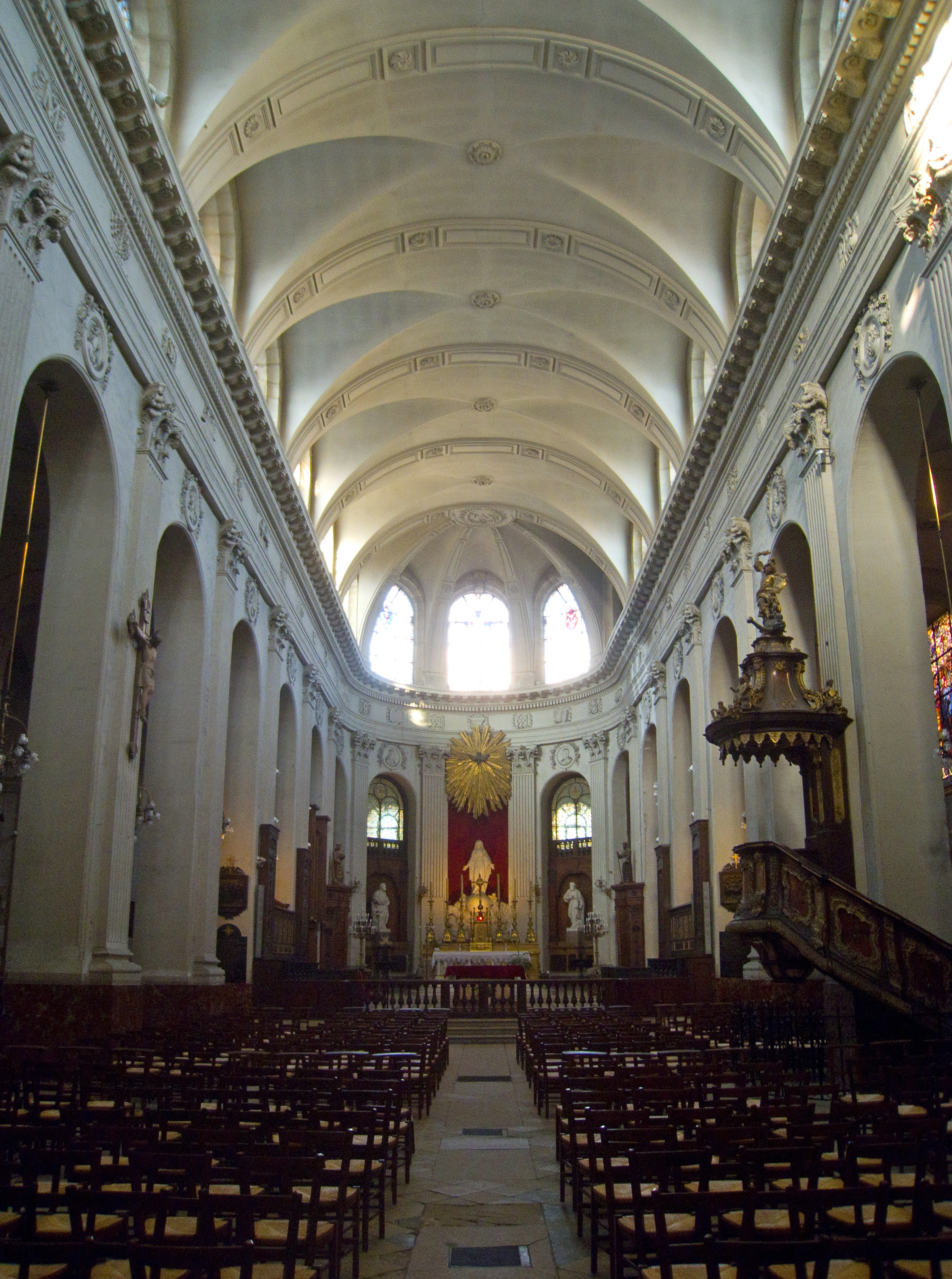 Église Notre-Dame-des-Blancs-Manteaux, Paris IVe arrondissement, France.